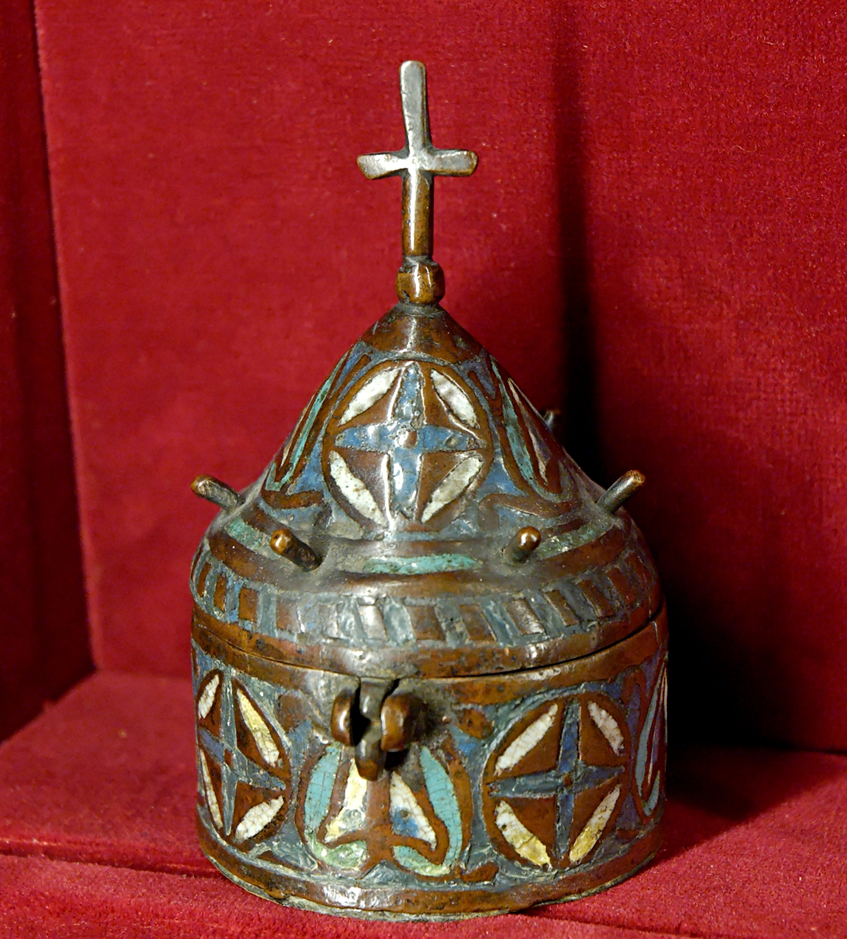 Pyx with palmettes decoration. Champlevé copper, enameled and gilt, Limoges, 13th century.